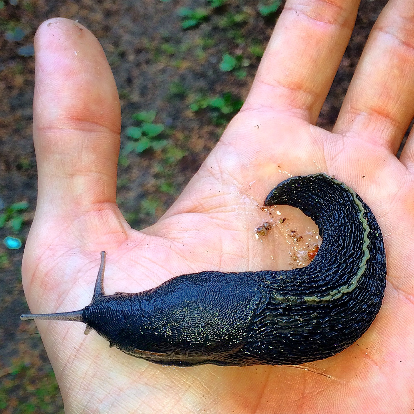 Jõelähtme Parish, Harju County, Estonia